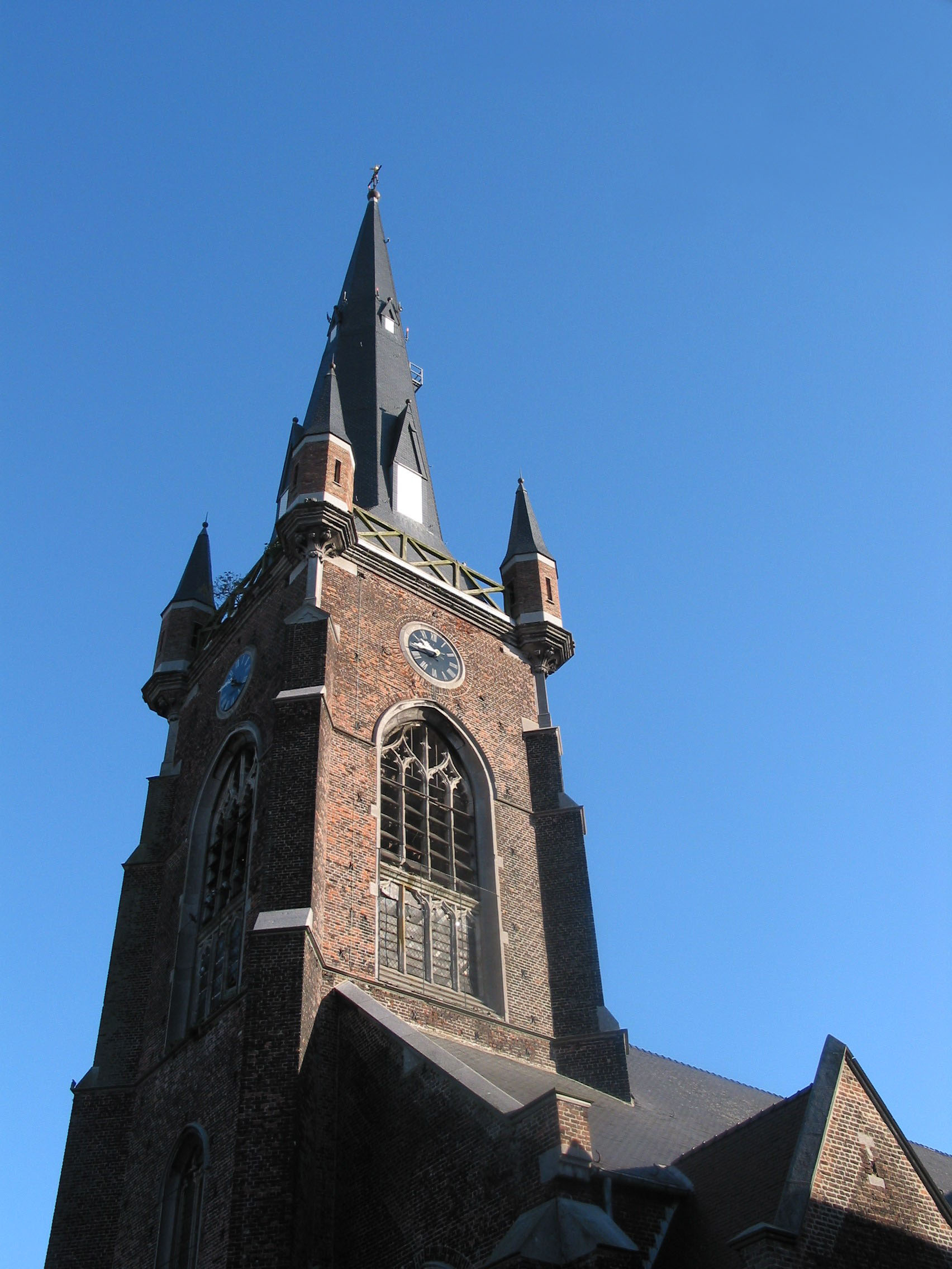 Gosselies (Belgium), the St. John the Baptist Church. (XVI-XIXth centuries).